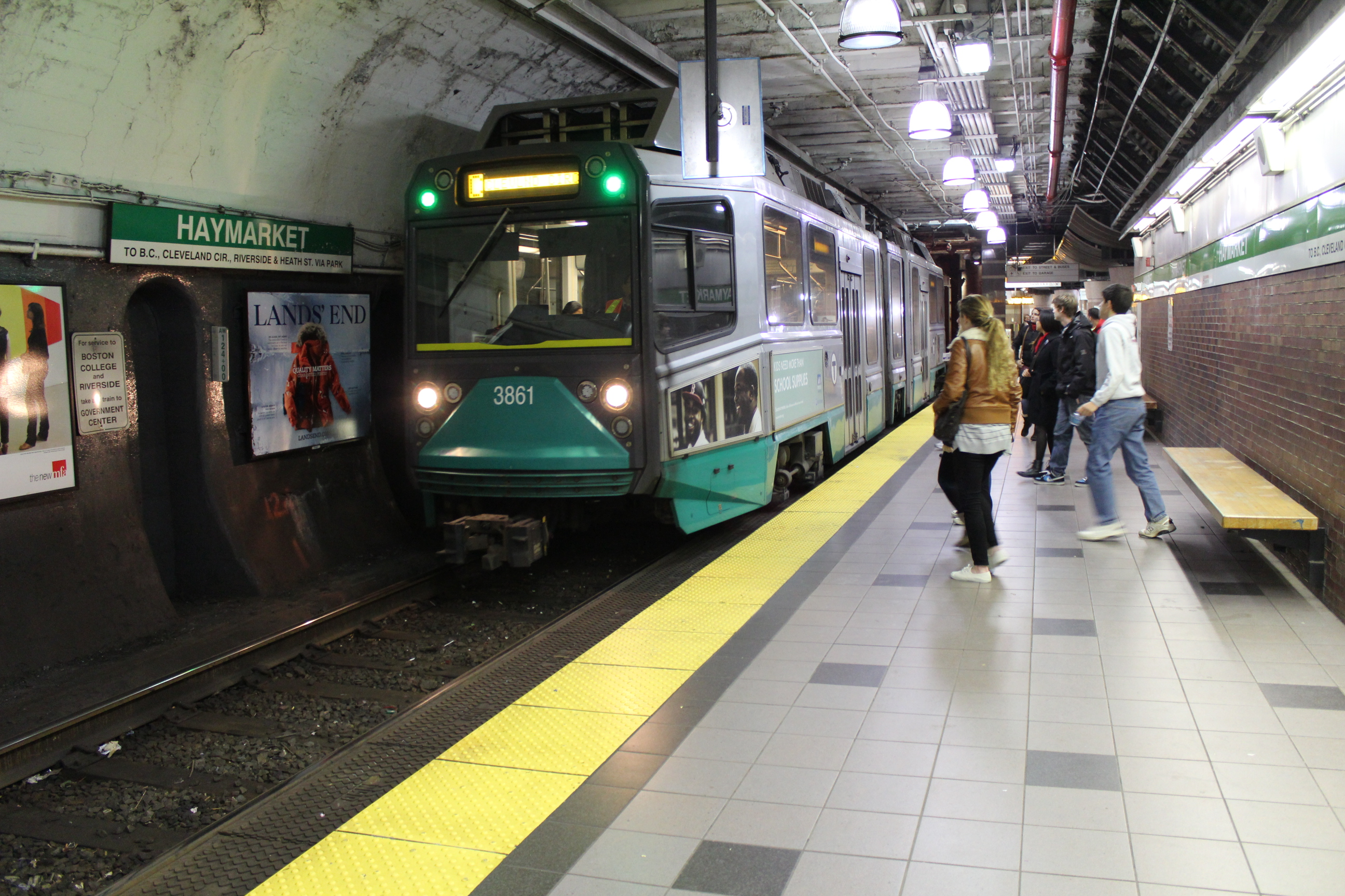 A single-car Cleveland Circle-bound train heading outbound at Haymarket station